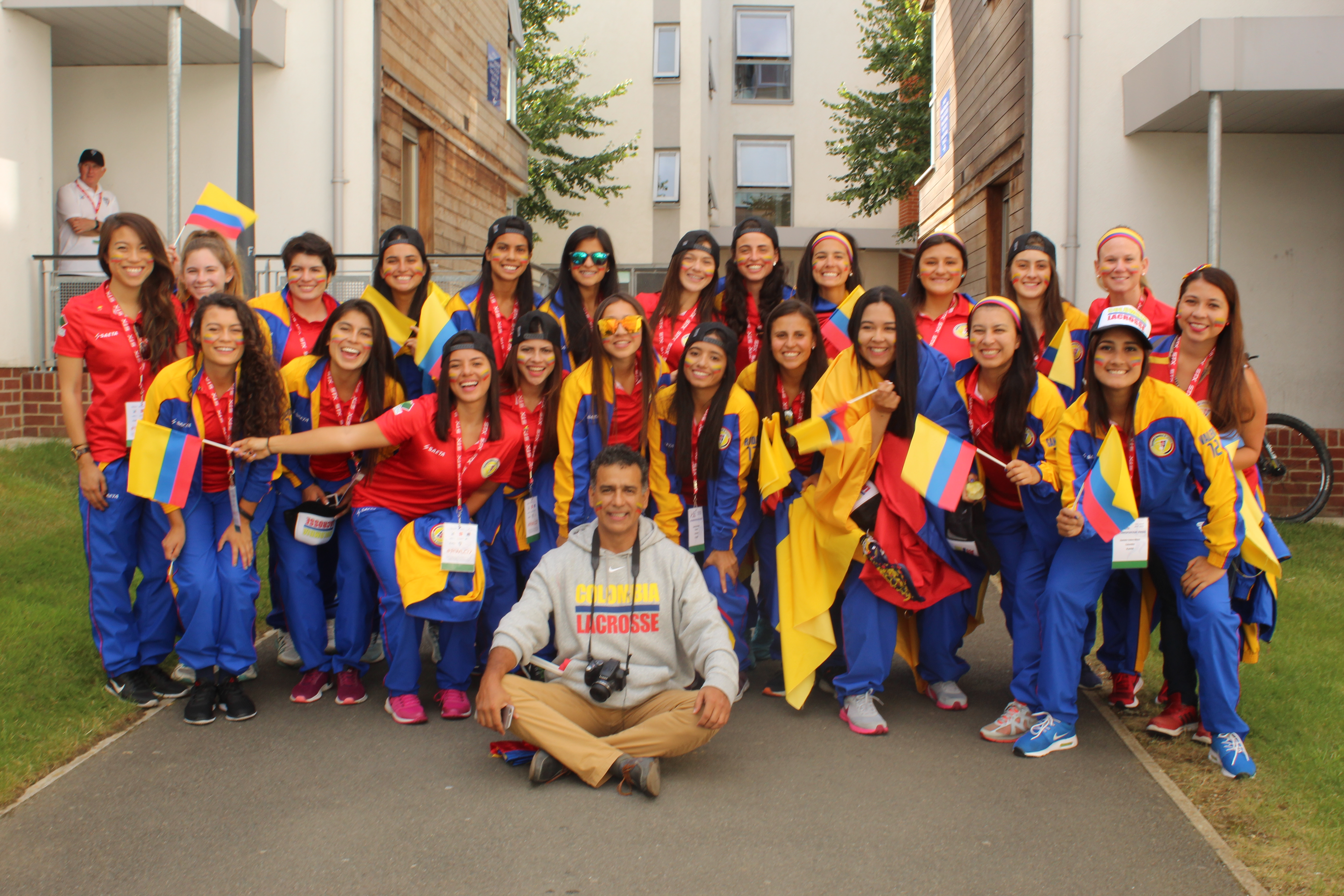 Equipo Femenino Lacrosse Colombia